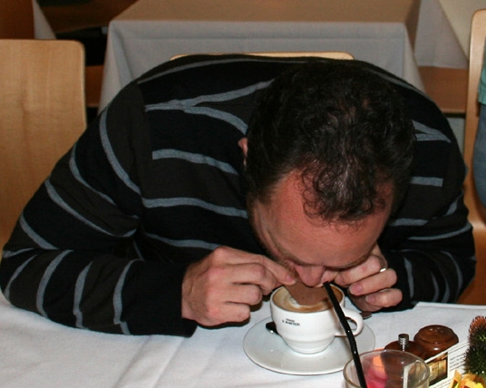 Jimmy Wales learns to eat Tim Tam.